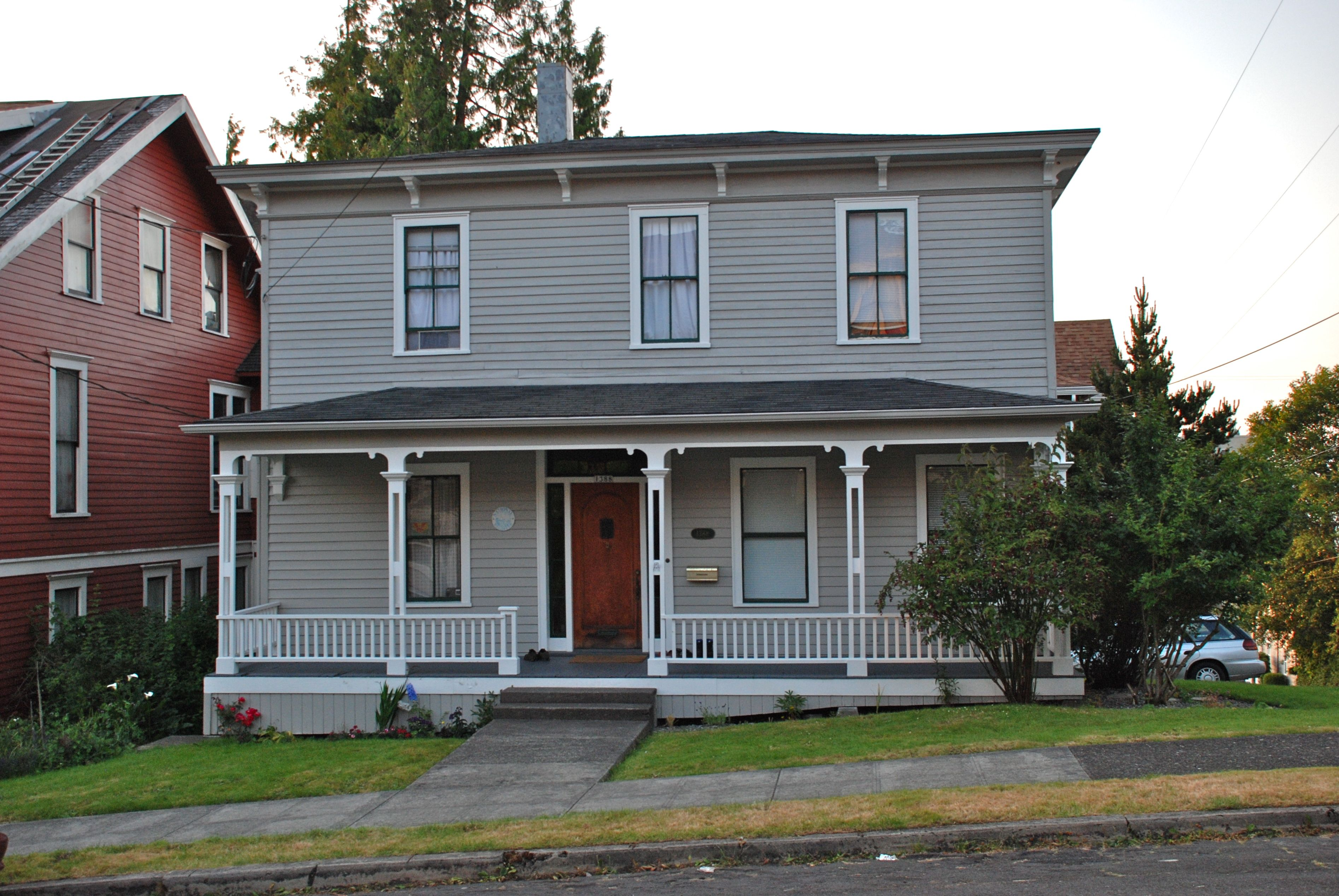 The Charles Stevens House, at 1388 Franklin Avenue in Astoria, Oregon, is listed on the U.S. National Register of Historic Places. The earliest portions were built in 1867, but some portions were added later; the second story was an 1885 addition.